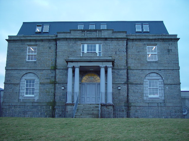 Symbister House, Whalsay. Georgian Laird's House, built in 1832 for the Bruce family, now the Secondary Department of Whalsay School.